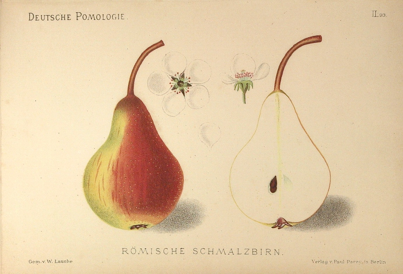 Page 93 from Deutsche Pomologie — Birnen, by Wilhelm Lauche, 1882. Published by Deutsche Pomologen-Vereins (German Pomological Society). Part of a series from the same book. The others can be found in Category:Deutsche Pomologie - Birnen Depicted pear cultivar: Römische Schmalzbirn